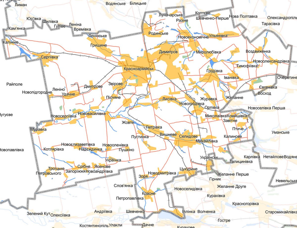 Map of Krasnoarmiisk Raion, Donetsk Oblast, Ukraine